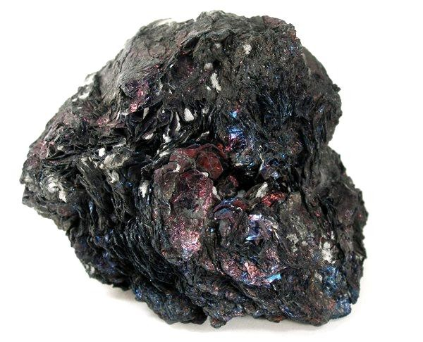 Covellite Locality: Butte, Butte District, Silver Bow County, Montana, USA (Locality at ) Size: 8.0 x 6.5 x 4.5 cm. An old-time, fine specimen of solid covellite blades from the historic Butte District. This is very rich copper ore and consists of a solid mass of iridescent peacock-blue and magenta covellite blades. I recently obtained this piece in a trade from a European collector, who stated this piece dates to the circa 1870s because of where he got it from (an old museum collection in Europe) - though this cannot be proven. This is during the primary silver production years and very early production of copper ores, for which the district is famous.